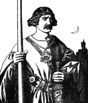 "Sir Gawaine, Knight of the Fountain" from Howard Pyle's The Story of Sir Launcelot and His Companions (1907). Despite the title that Pyle has given to this image, it is clearly an image of Ewaine, who is the knight of the fountain. The story that follows this image is the story of Ewaine, not of Gawaine.